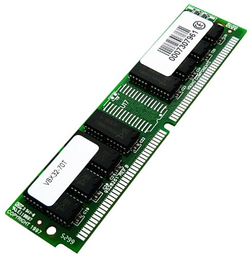 RAM (Random Access Memory) is a hardware component.